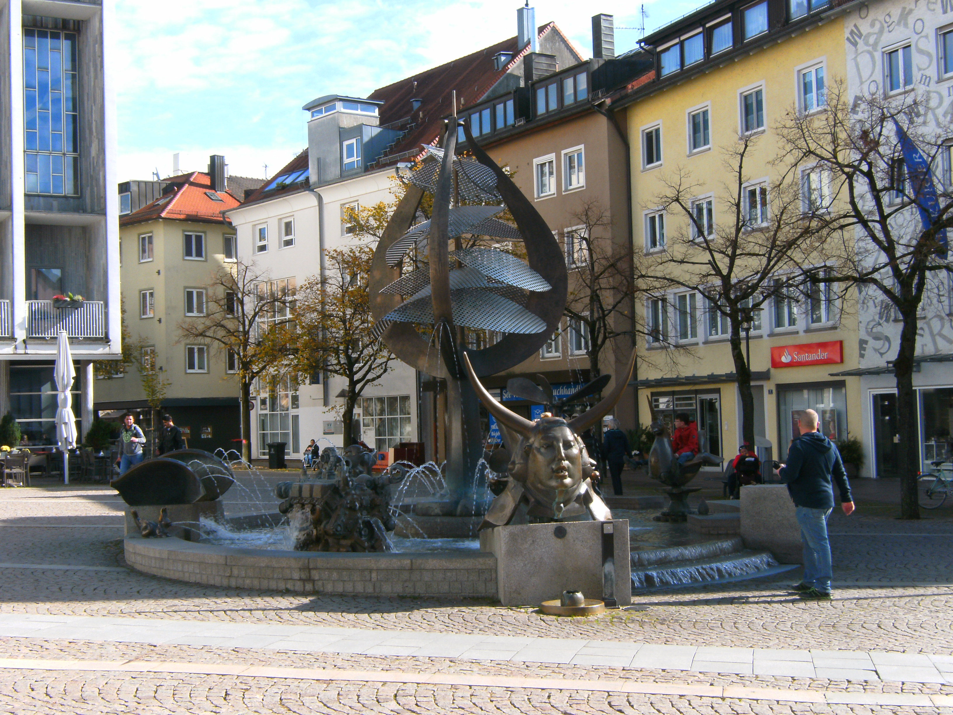 Friedrichshafen, Germany: Buchhornbrunnen (fountain) seen from the front.